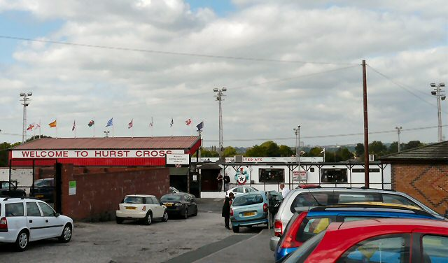 Hurst Cross The home of Ashton United AFC, reputedly the oldest semi-professional football team in Manchester. Club website